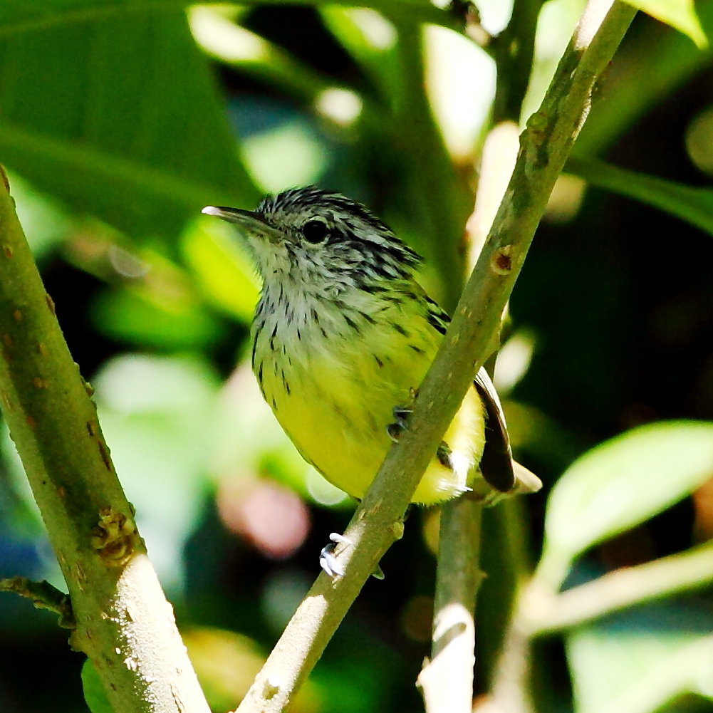 Streak-capped antwren (male) at Angra dos Reis - RJ - Brazil